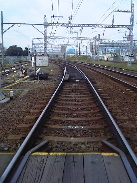 Rail track of Kintetsu Nagoya Line in Kuwana City, Mie Prefecture